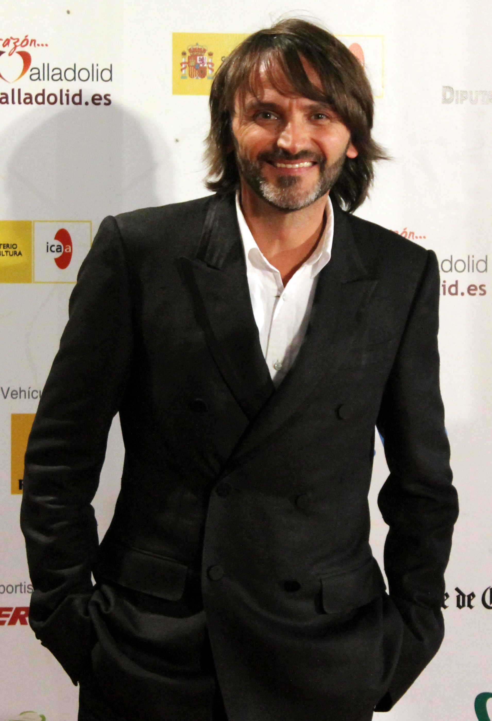 Fernando Tejero, Spanish actor.